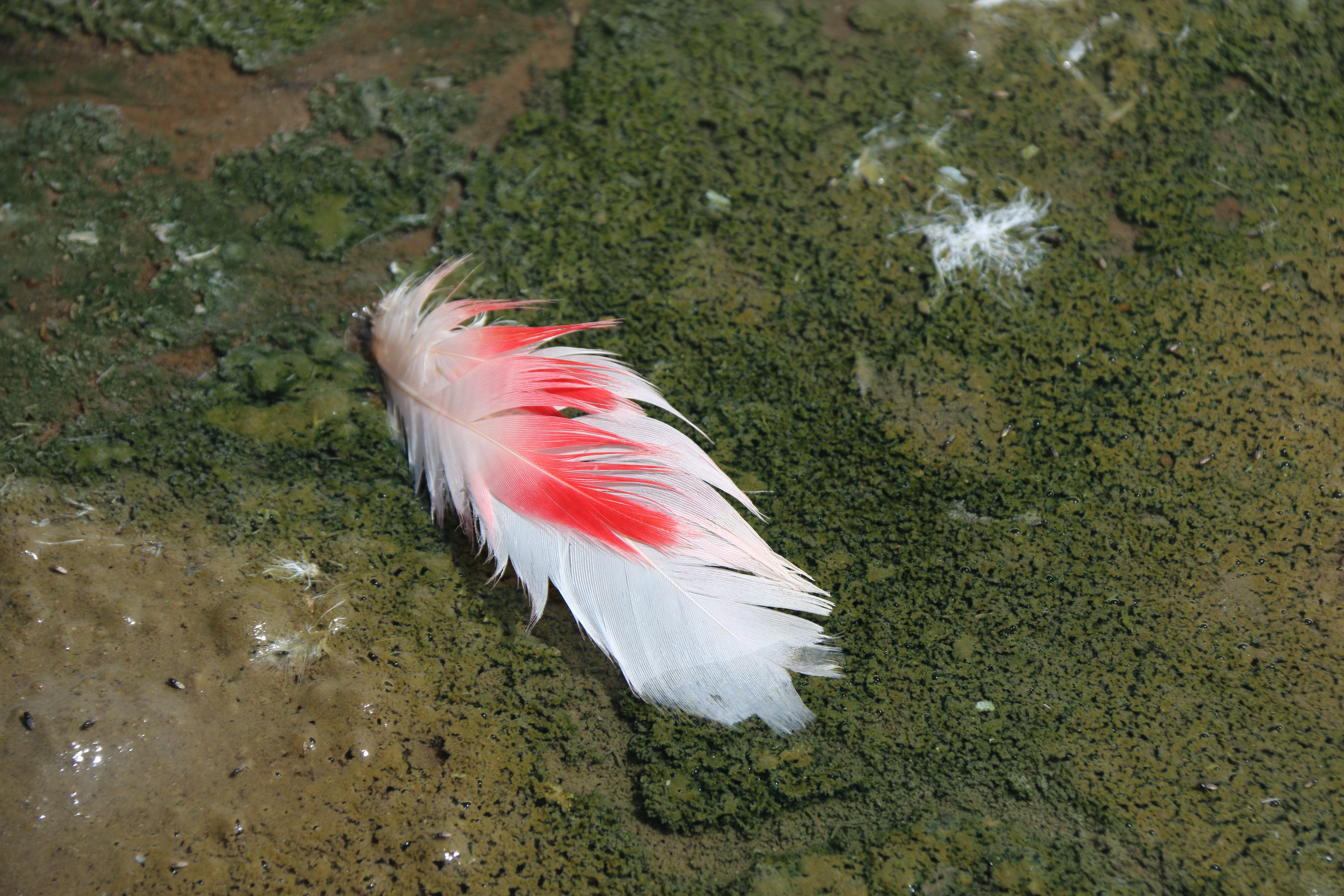 A lesser flamingo feather laying on a mat of blooming spirulina on the shore of the East African Rift Valley Chitu Lake in Ethiopia